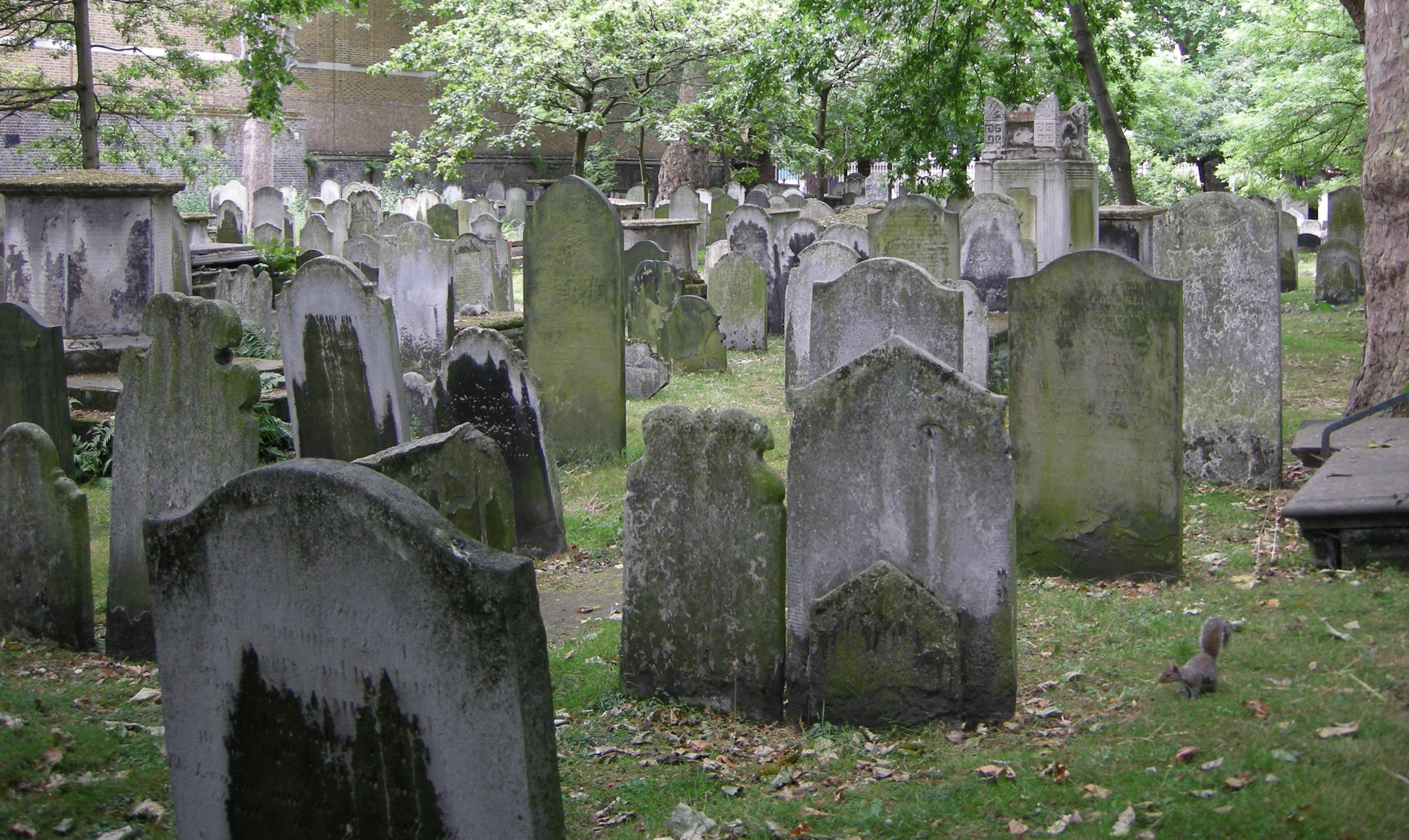 Monuments in Bunhill Fields burial ground